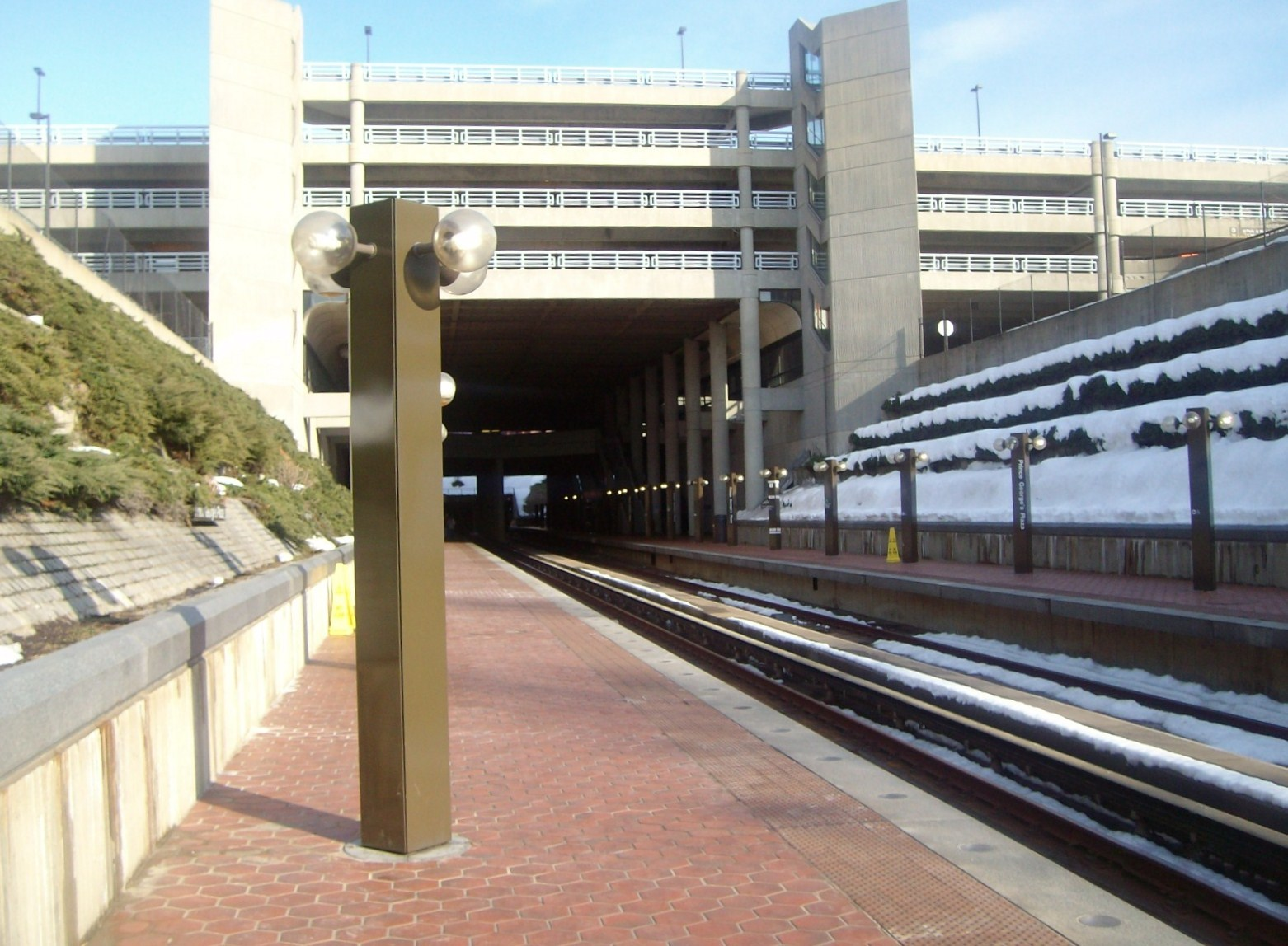 Prince Georges Plaza Station Pointing Northbound